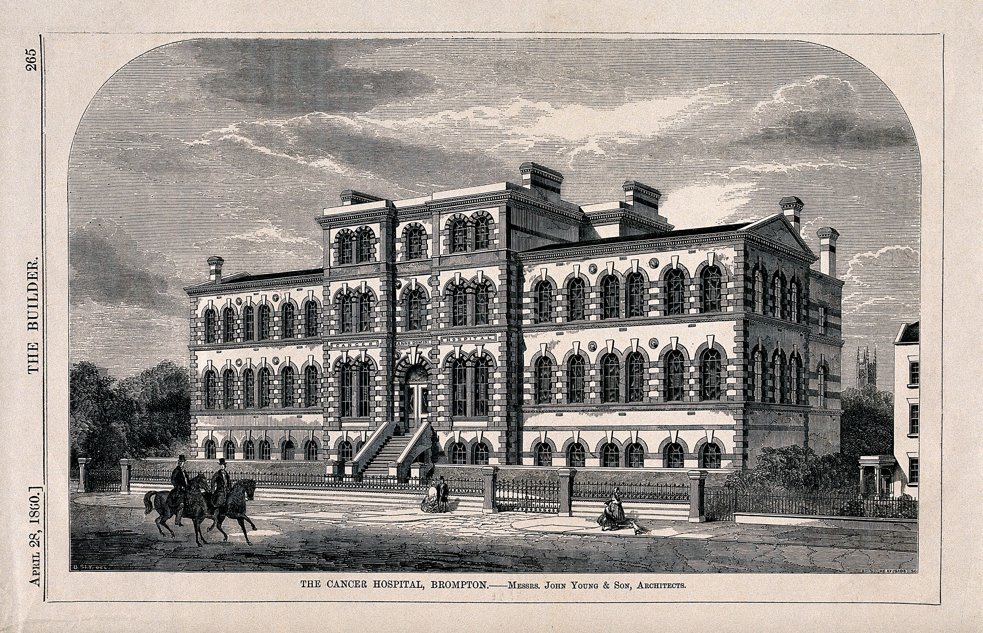 Brompton Cancer Hospital, Kensington, London: view from the street. Wood engraving, 1859. Iconographic Collections Keywords: John Young; David Mocatta; Brompton Cancer Hospital (Kensington, London, England)